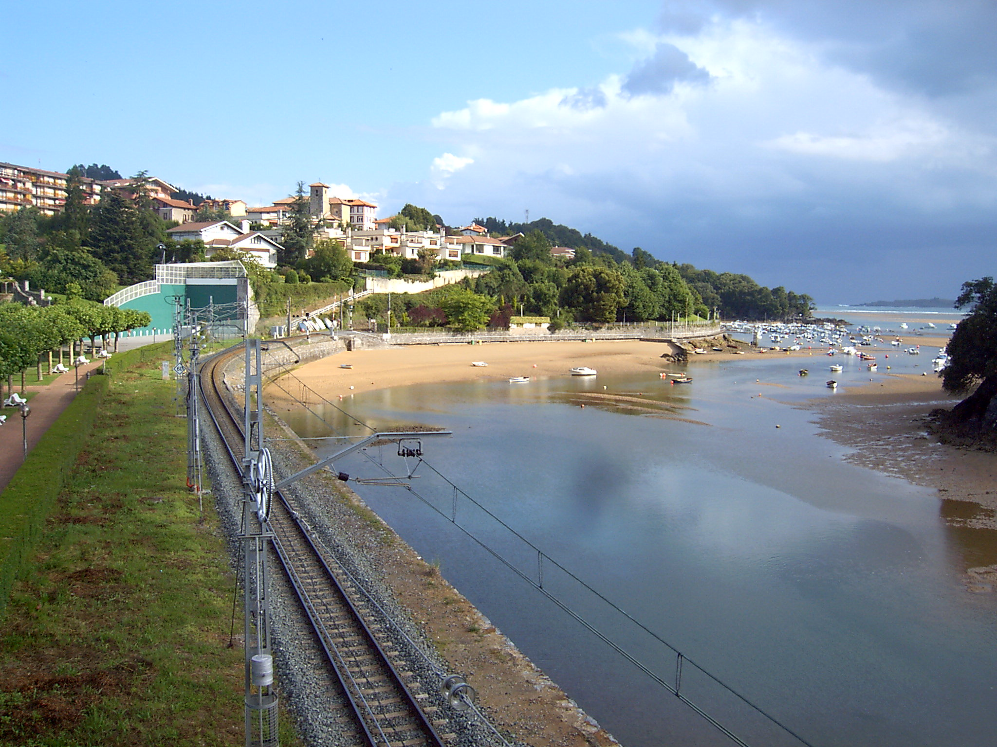 Toña Beach in Sukarrieta - Pedernales